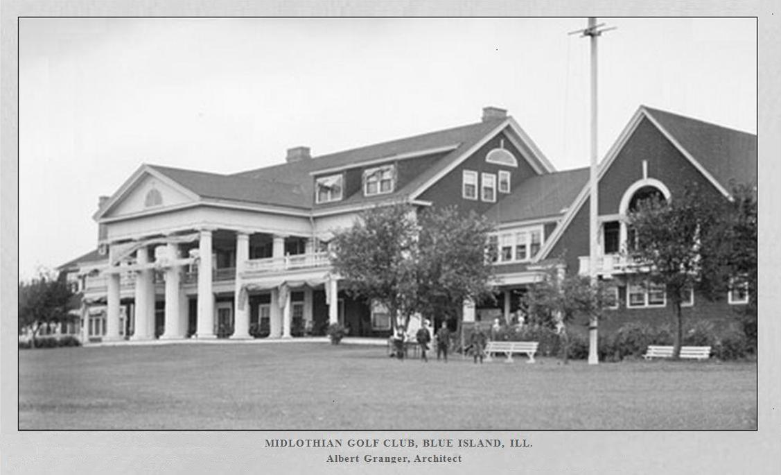 Image of the clubhouse of the Midlothian Country Club, Midlothian, IL